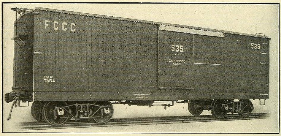 Boxcar built for service in Cuba built by American Car and Foundry. Used in sugar plantation service. Cropped, sharpened and lightened in GIMP.